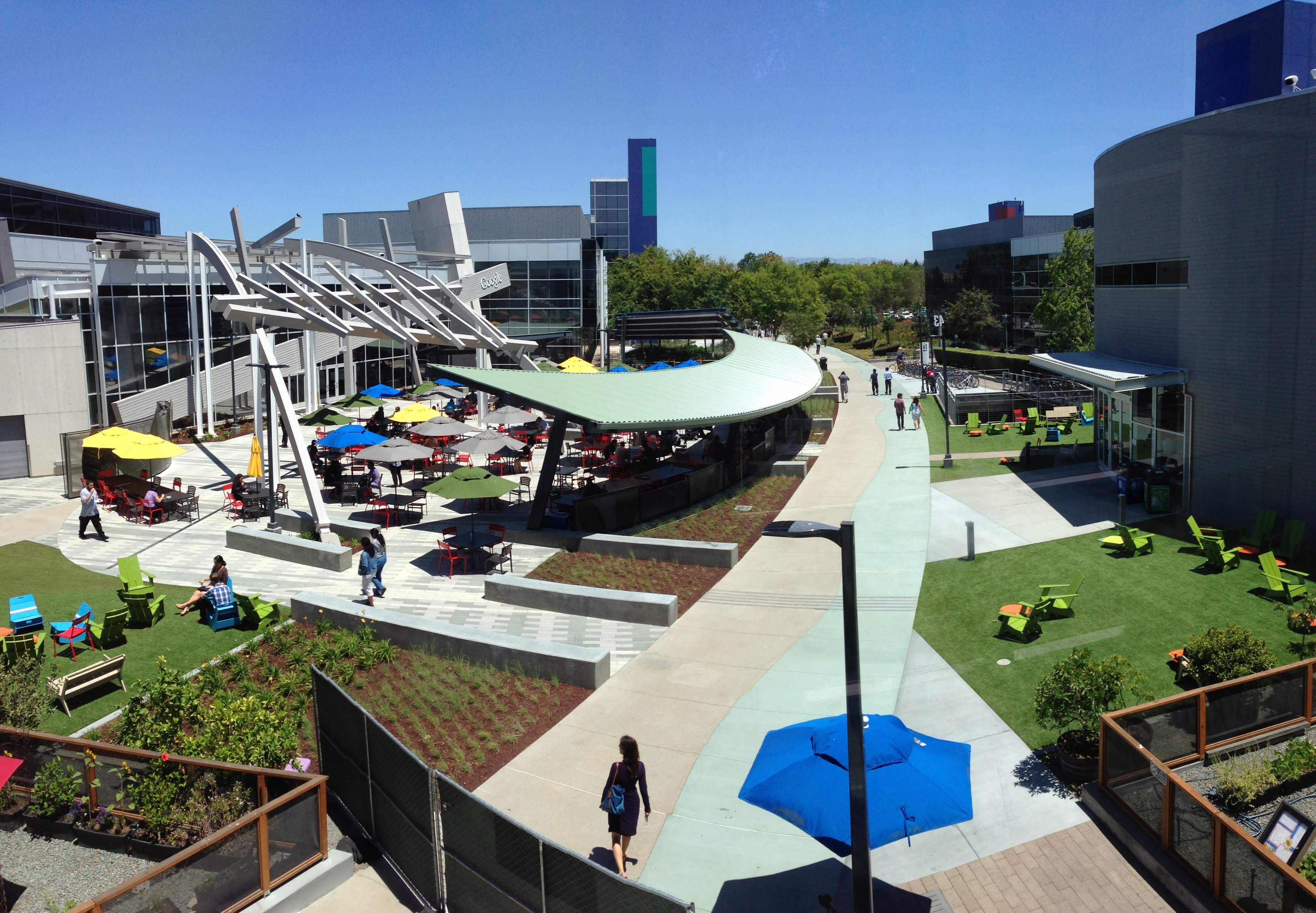 Mountain View, California